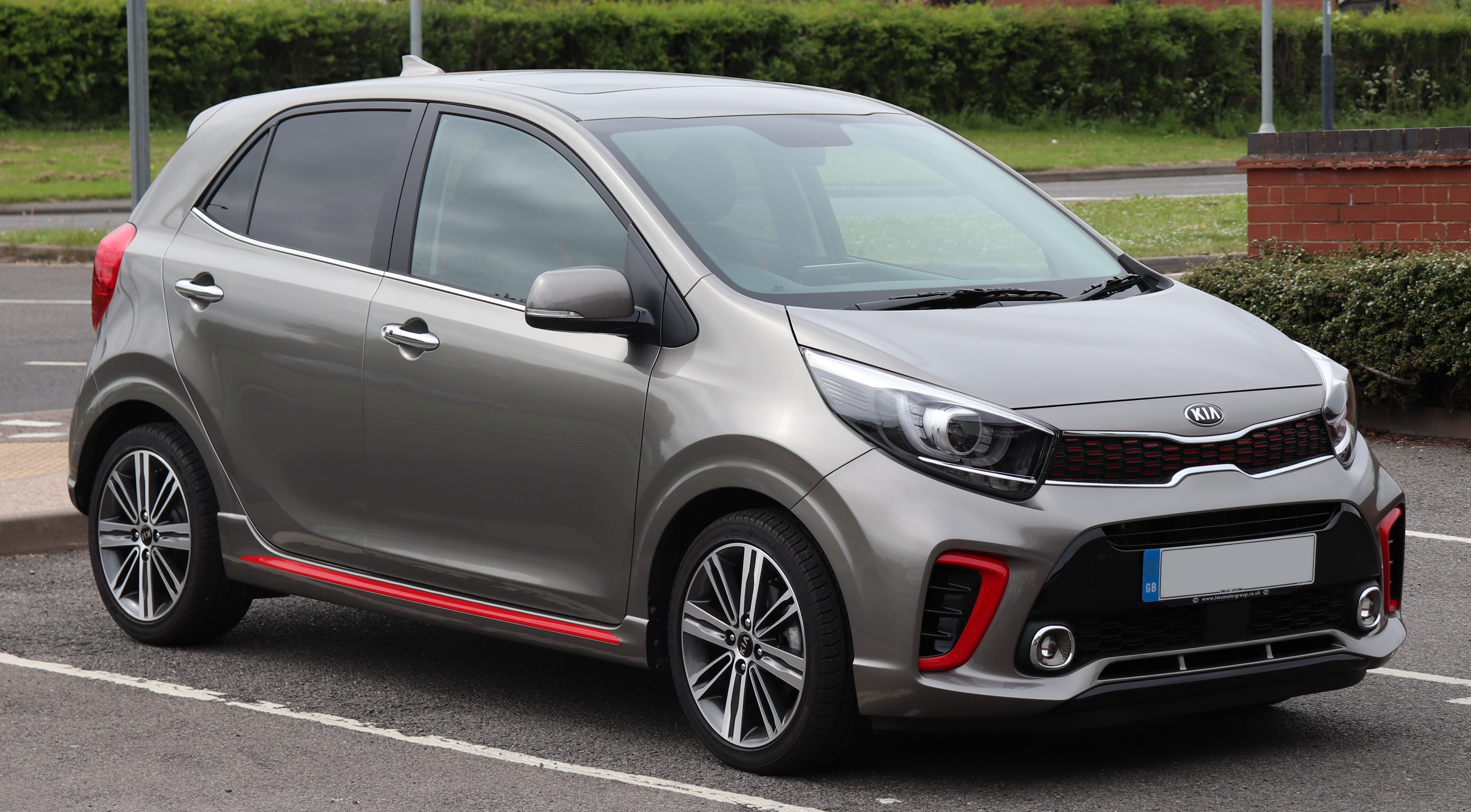 2017 Kia Picanto GT-Line S 1.2 Front Taken in Leamington Spa